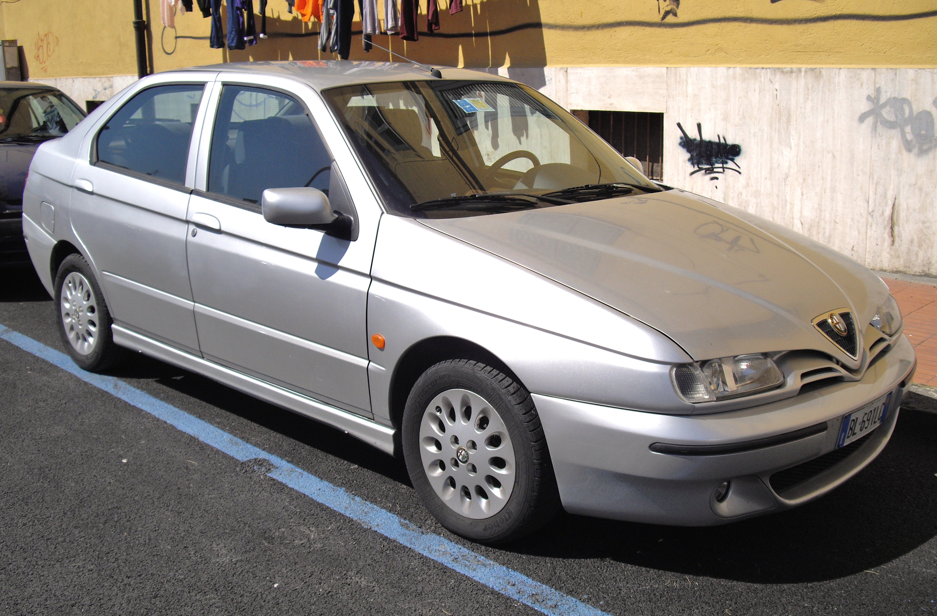 1999 Alfa Romeo 146